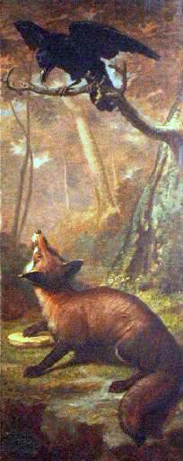 Leon Rousseau's painted panel of "The Fox and the Crow", 19th century French